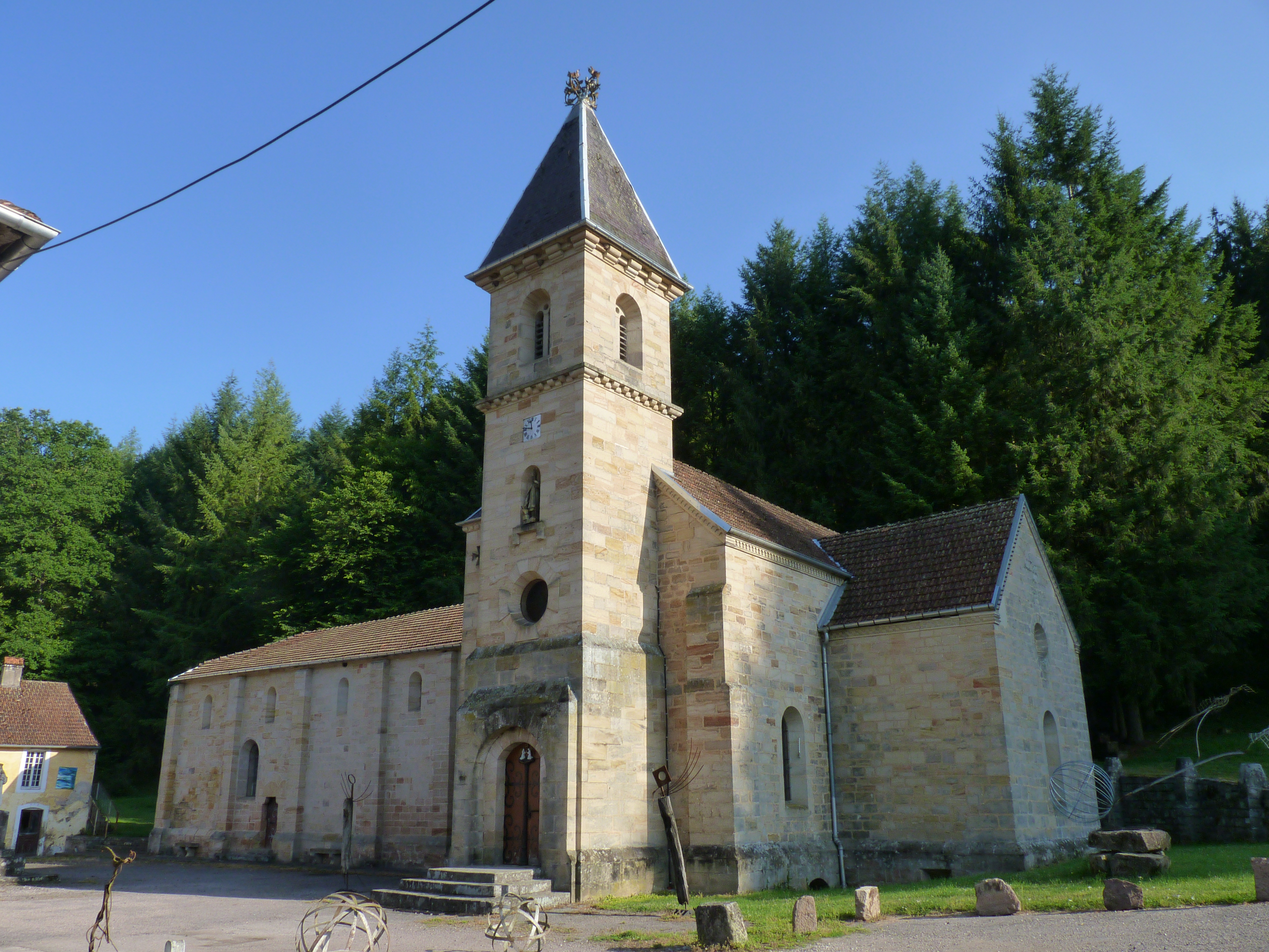 Droiteval church